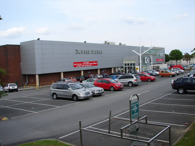 Dunnes Stores At the corner of Treepark Road and Mayberry Road.